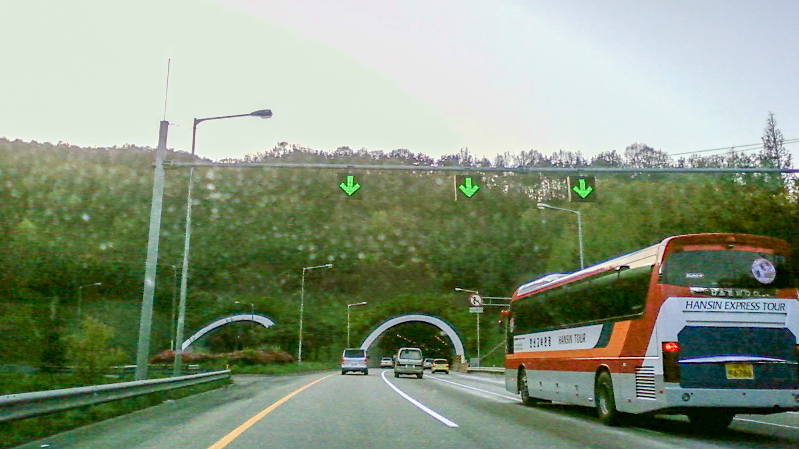 Daejeon Tunnel on Gyeongbu Expressway in South Korea. (to Seoul)